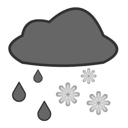 Aversă de lapoviță, nebulozitate